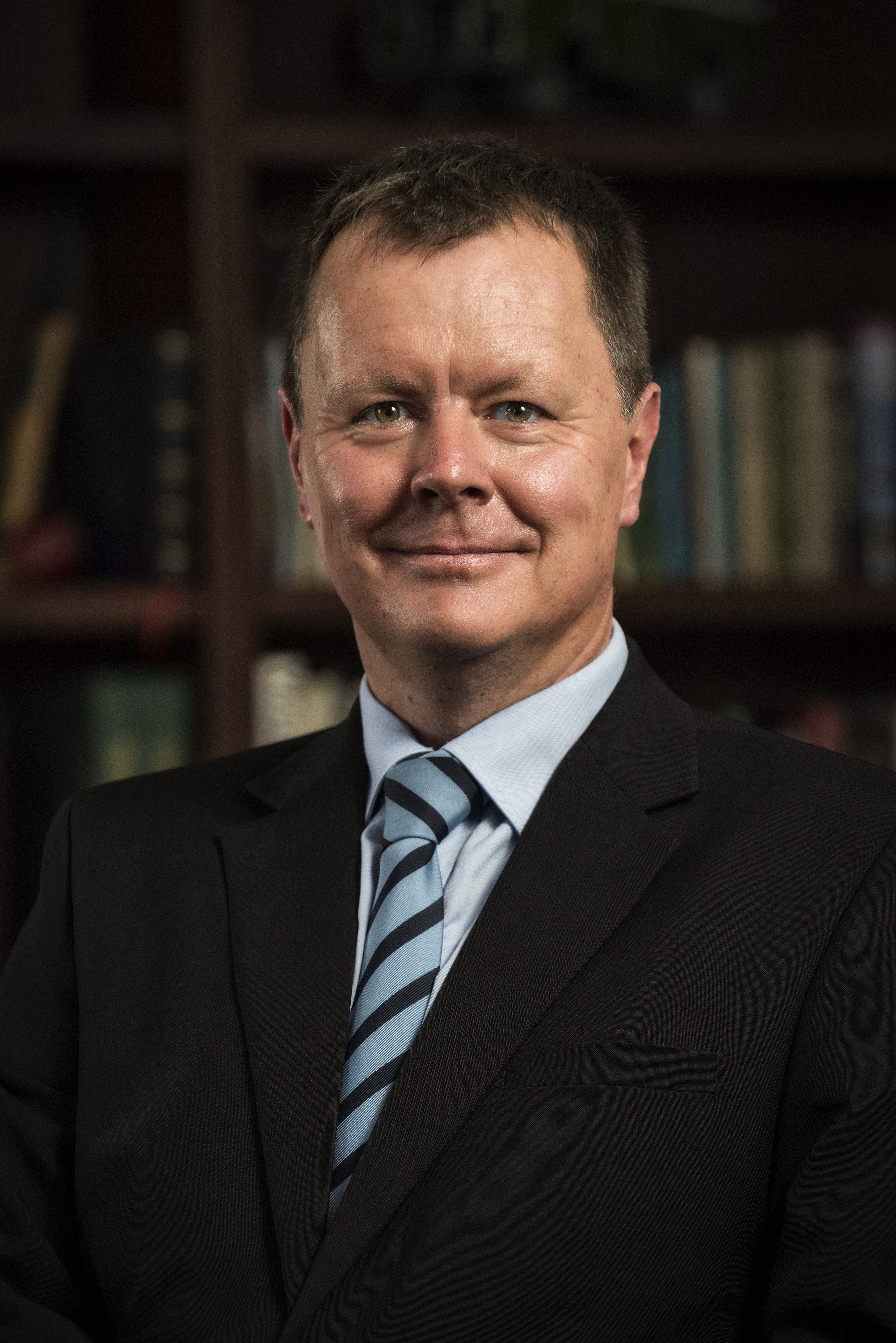 Alan Thompson, 19th Headmaster of St Andrew's College